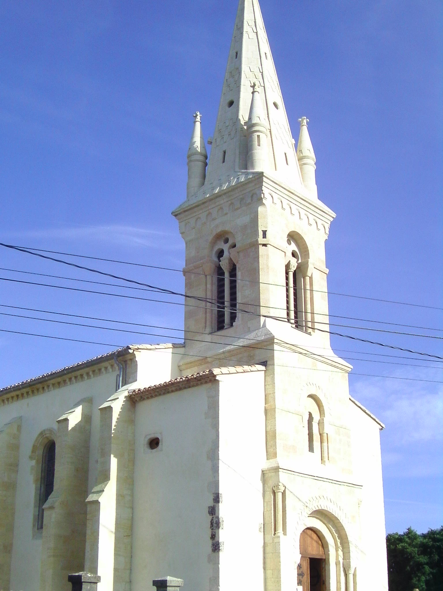 Eglise de Lanton du XIIe